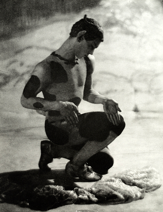 Nijinsky in "L'Après-midi d'un faune". Paris.